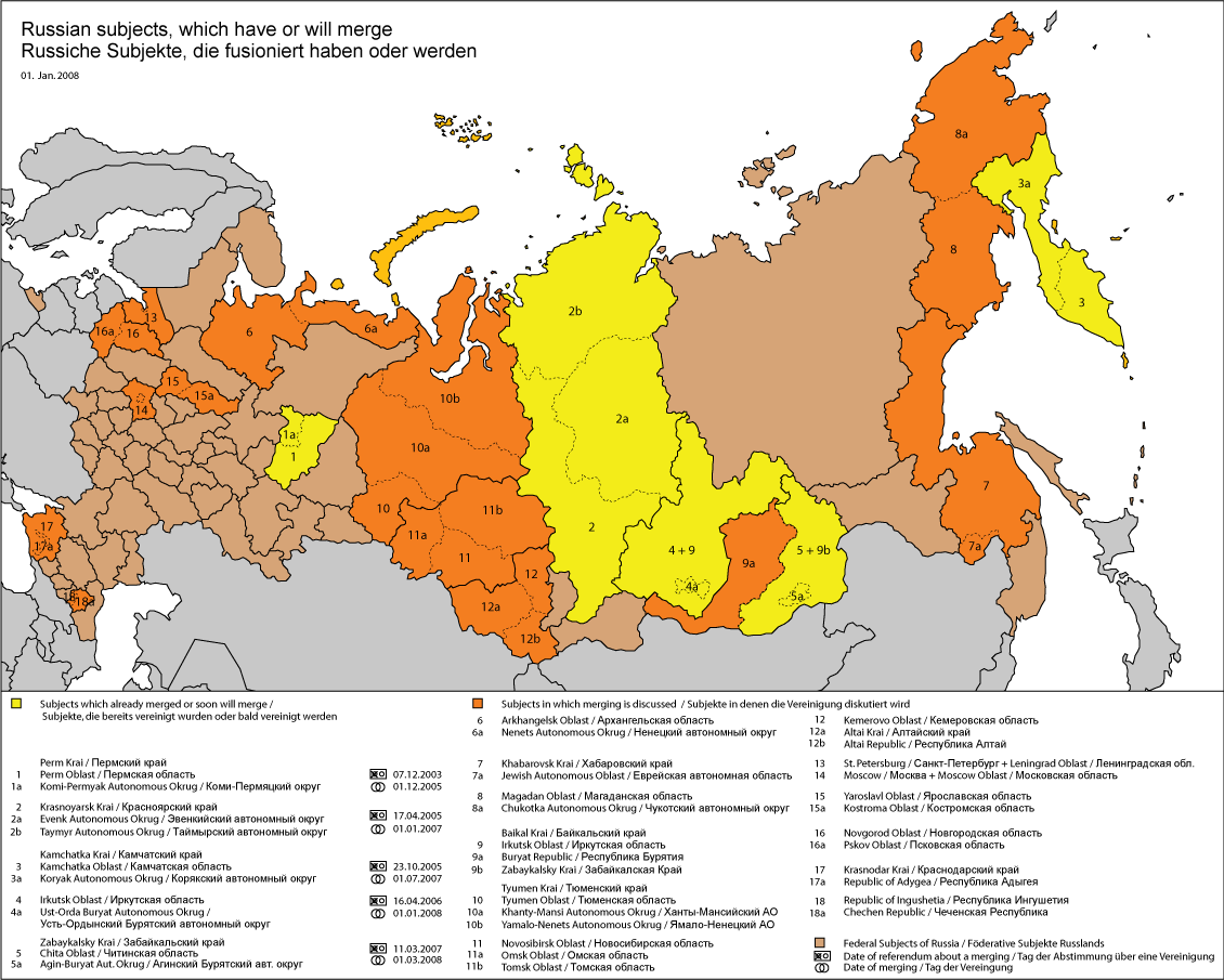 Map of the Russian Federation showing the federal subjects already merged, the federal subjects that will be merged, and the federal subjects whose fusion is under discussion. Doted lines show (future) merged subjects, which where/will be merged with others now.